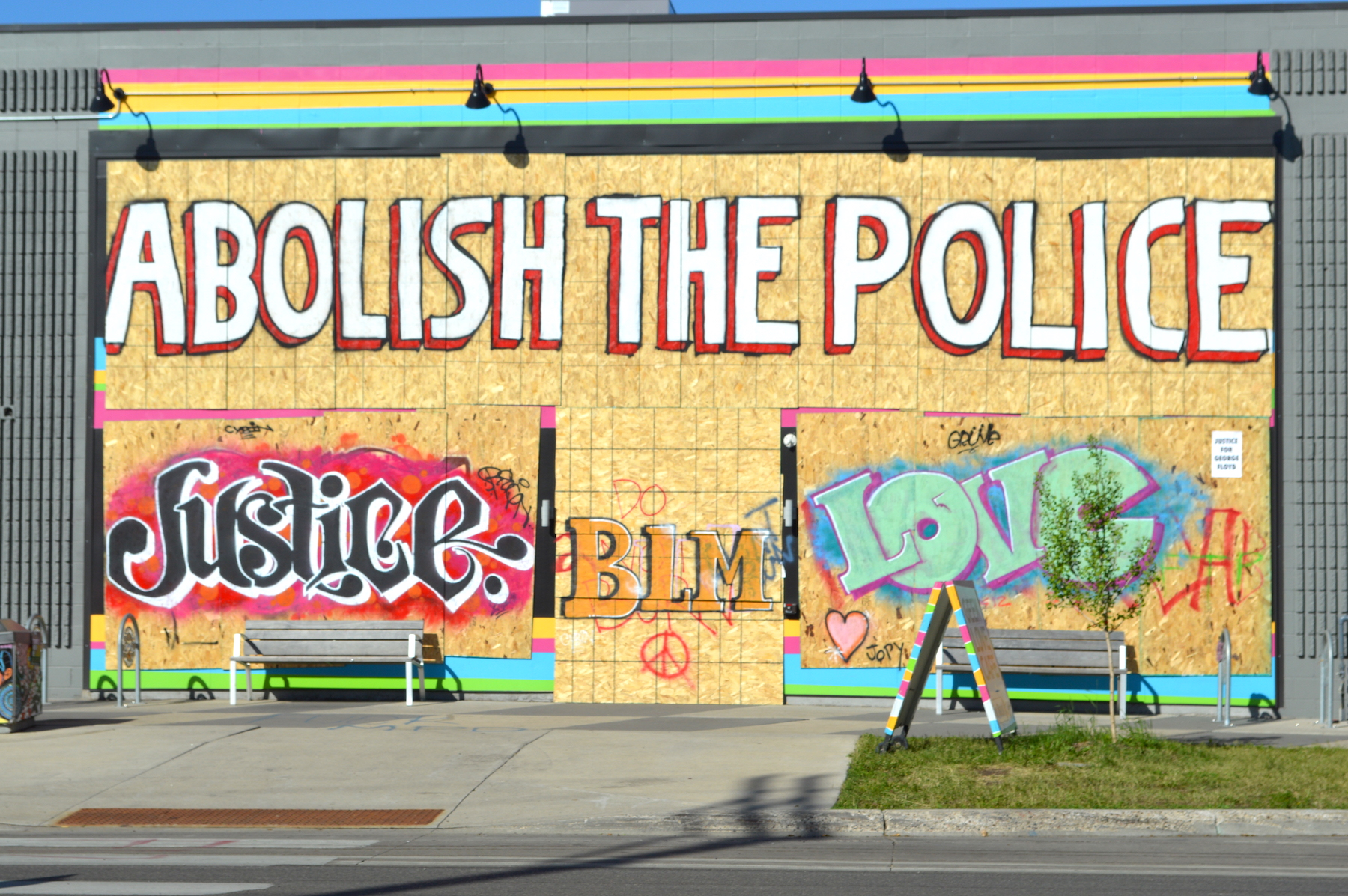 Graffiti, George Floyd protest, Minneapolis, MN, June, 2020